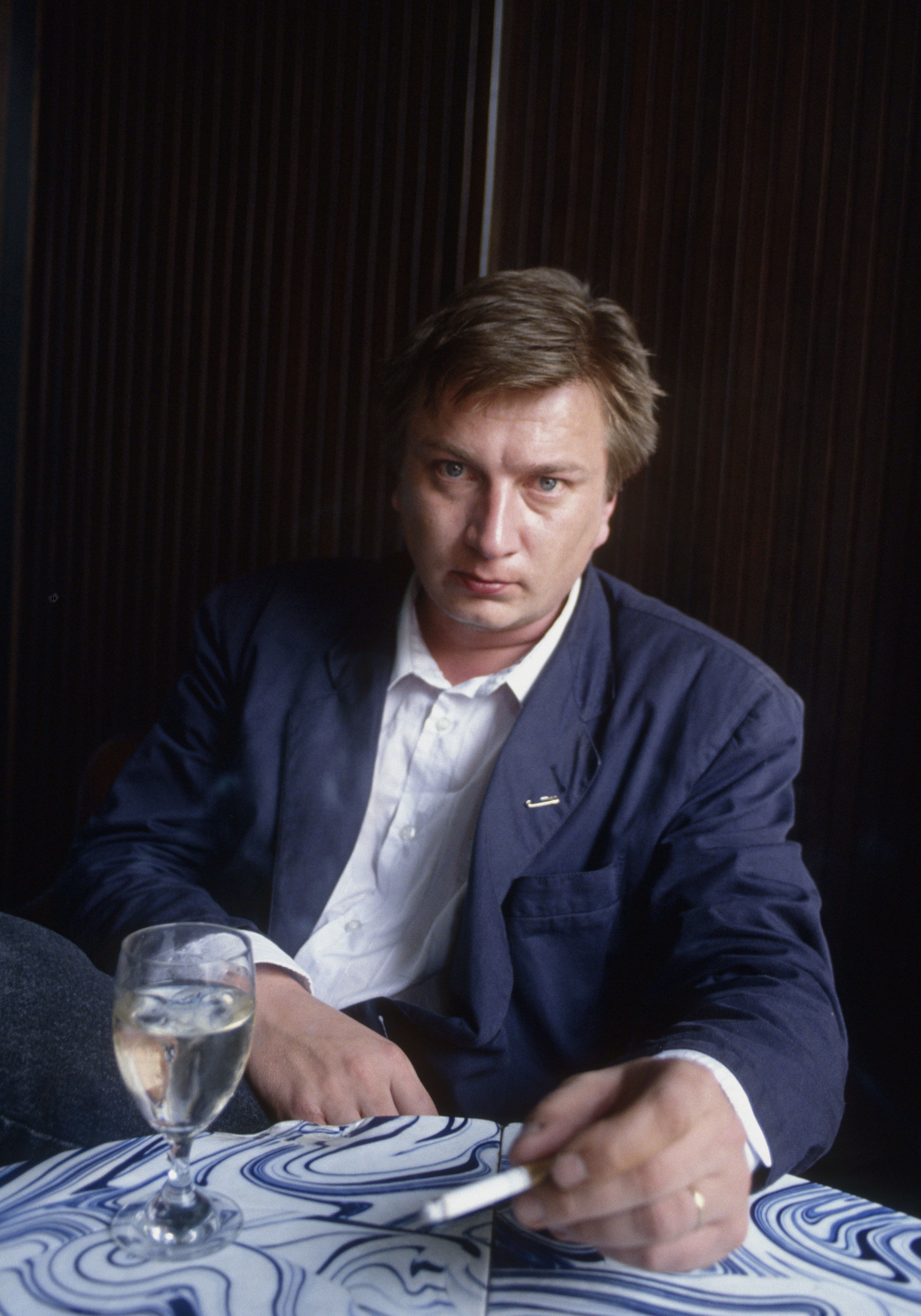 Aki Kaurismäki